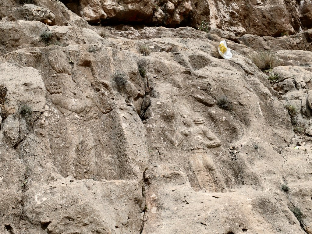 Rock relief said of Barm-e Dilak II. Scene depicting the Sasanian king Bahram II and a courtier. Area of Shiraz, province of Fars, Iran.